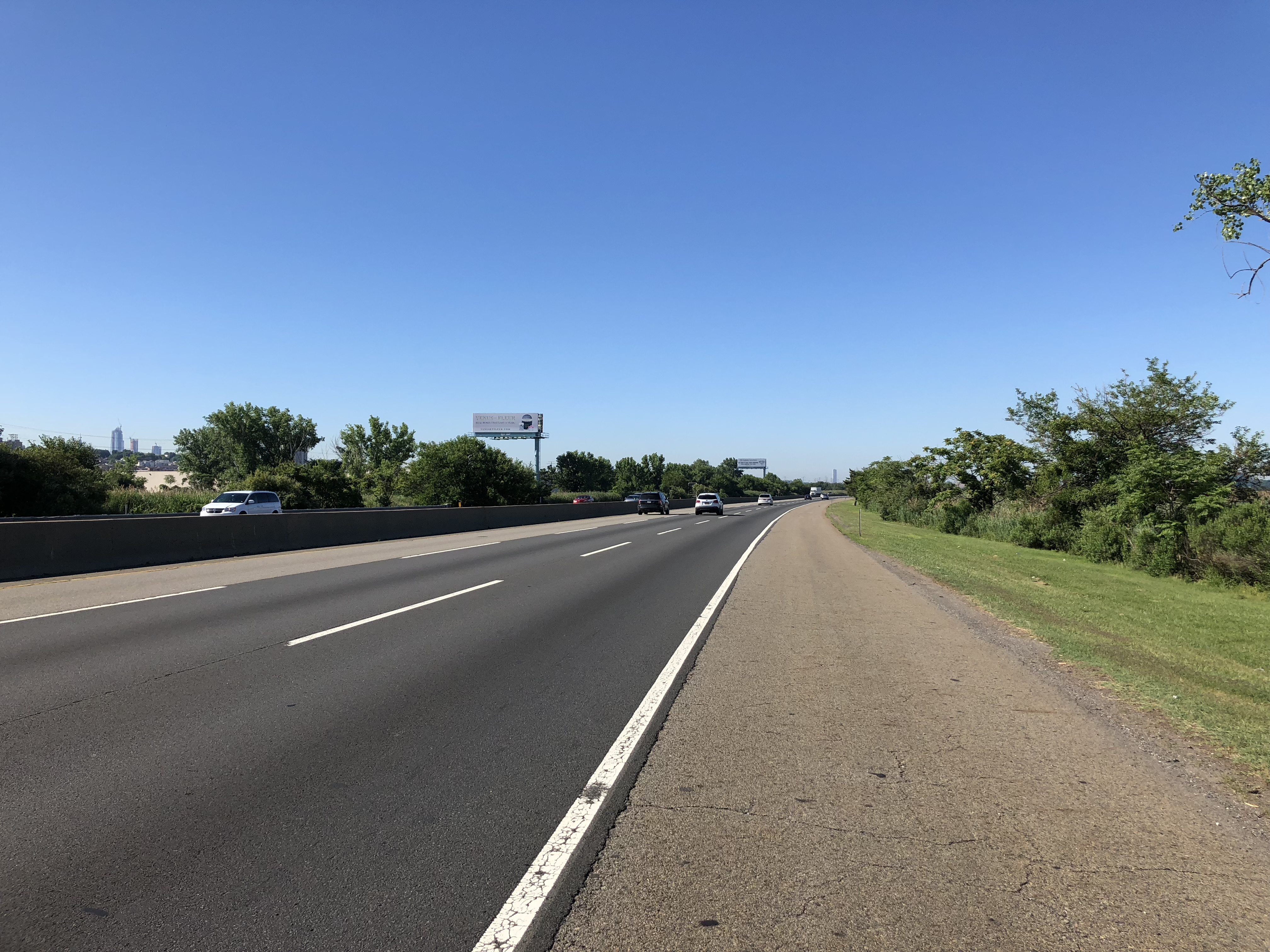 View south along Interstate 95 (New Jersey Turnpike Eastern Spur) between the exit for the New Jersey Turnpike Western Spur and Exit 17 in North Bergen Township, Hudson County, New Jersey